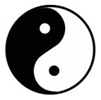 Kala Letter from the DKPGraph